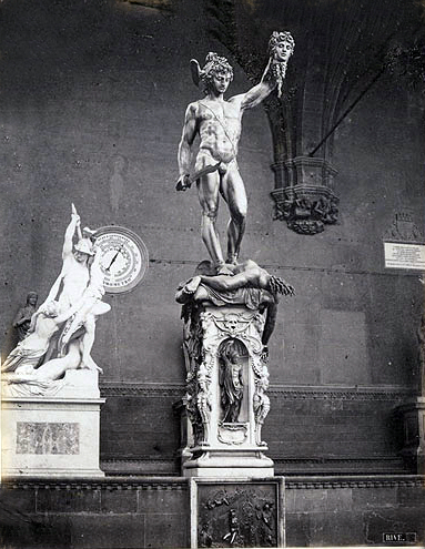 Roberto Rive, "Cellini's Perseus".